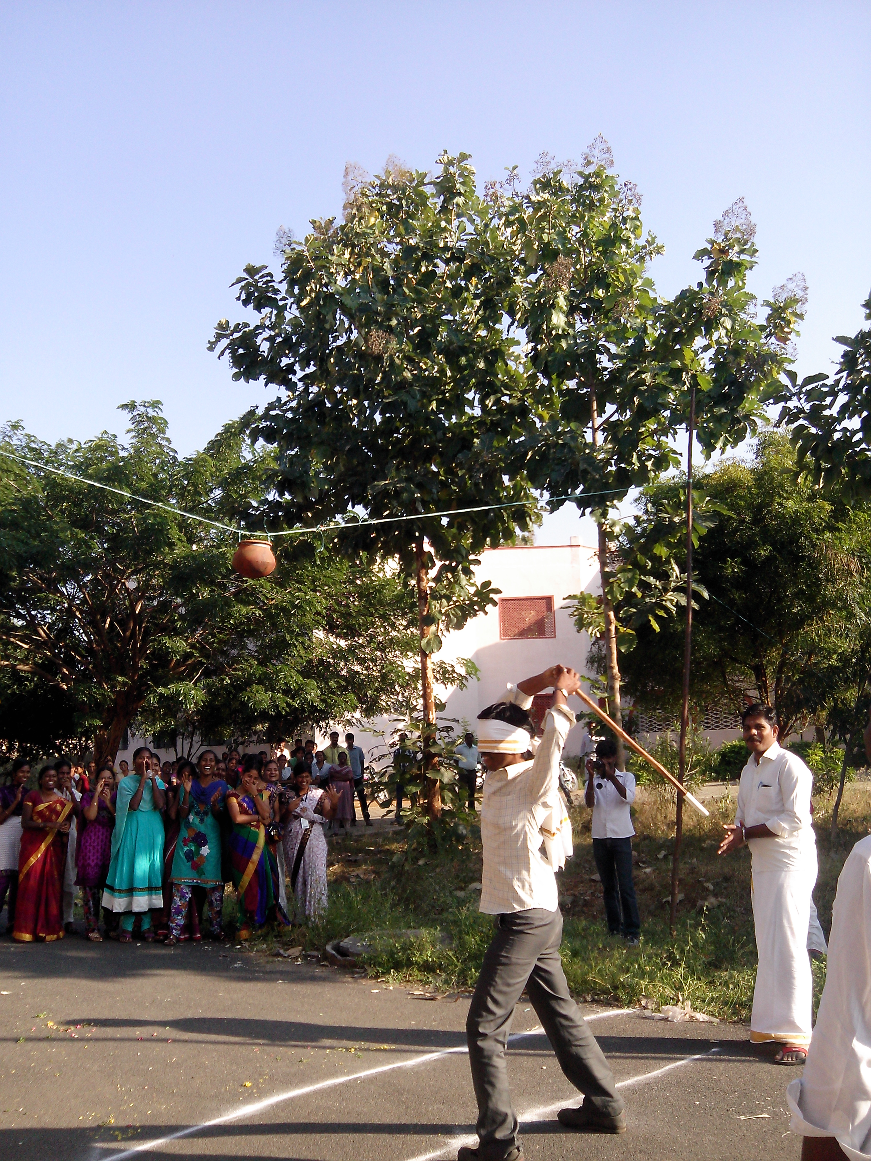 Folk game of Tamil Nadu, uriyadiththal, conducted during the part of Pongal festival at Periyar University, Salem,Tamil Nadu, India.